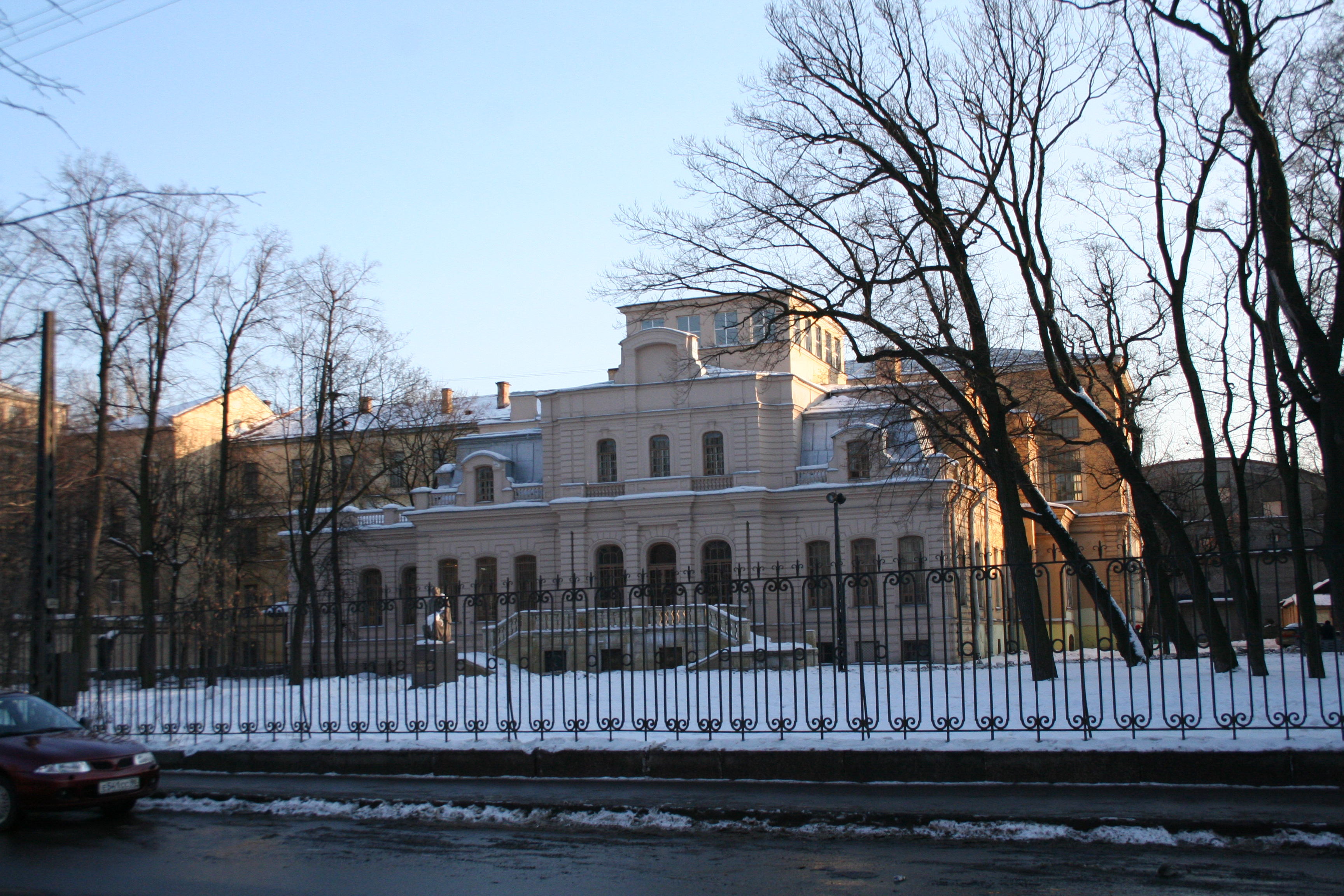 St. Petersburg State University of Phisical Training after Petr Lesgaft